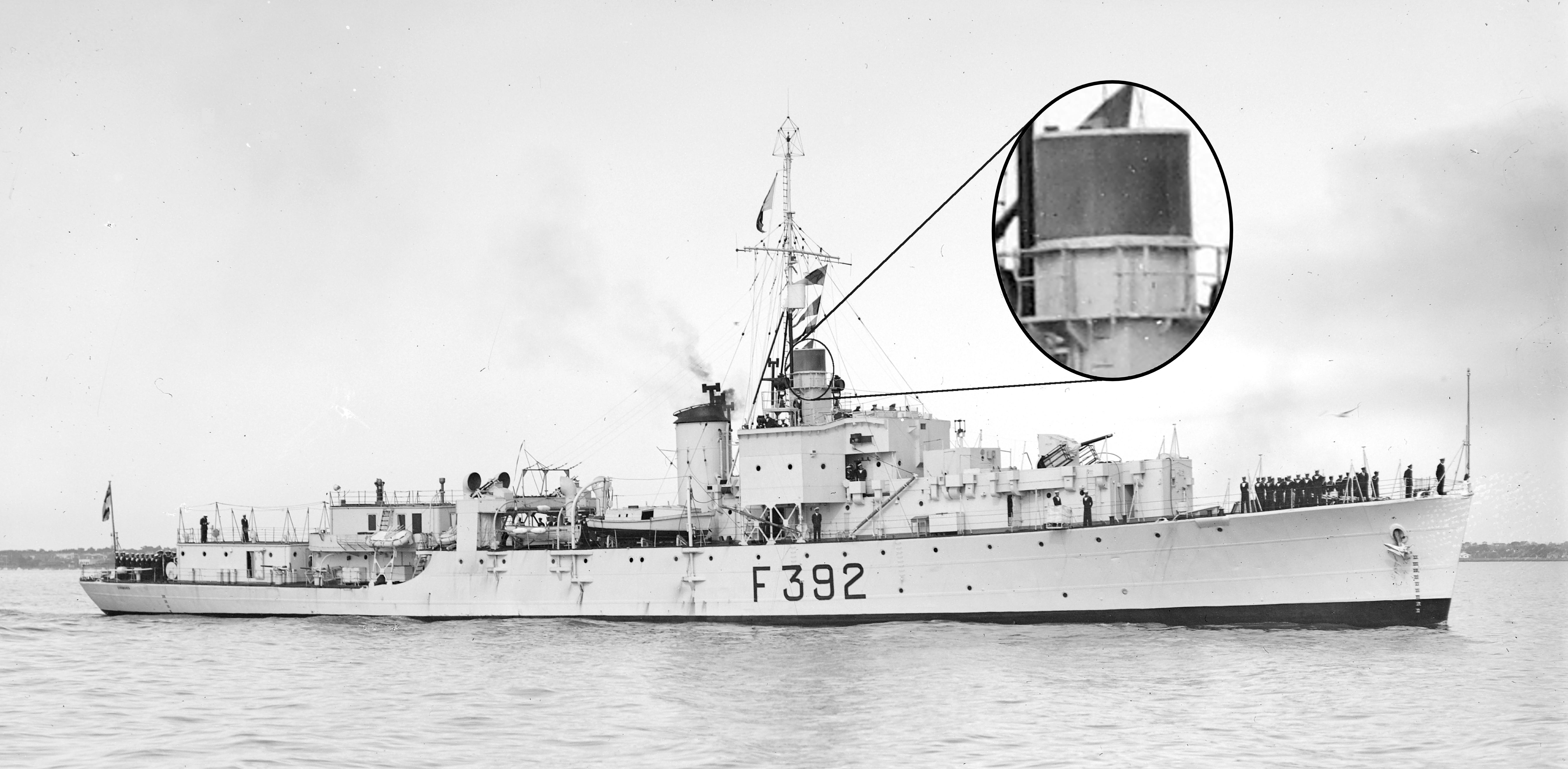 Frigate Shamsher belonging to Pakistan Navy visiting Australia, with a zoom on the centimetric radar.